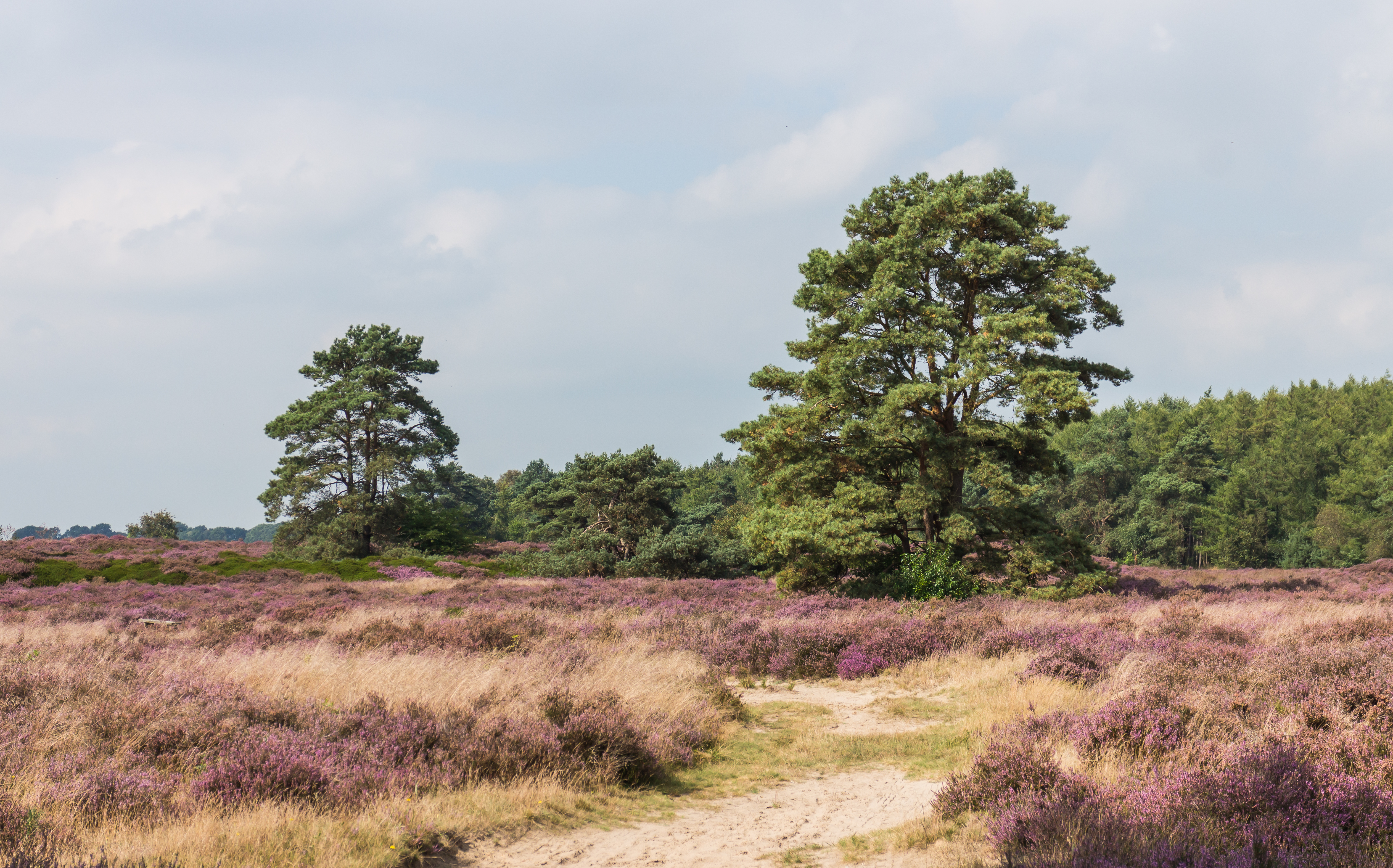 Fir trees (Pinus sylvestris) between flowering heather. Location, Schaopedobbe (Schapenpoel) in the Netherlands.